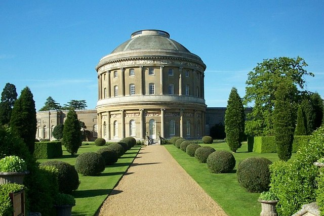 Ickworth House